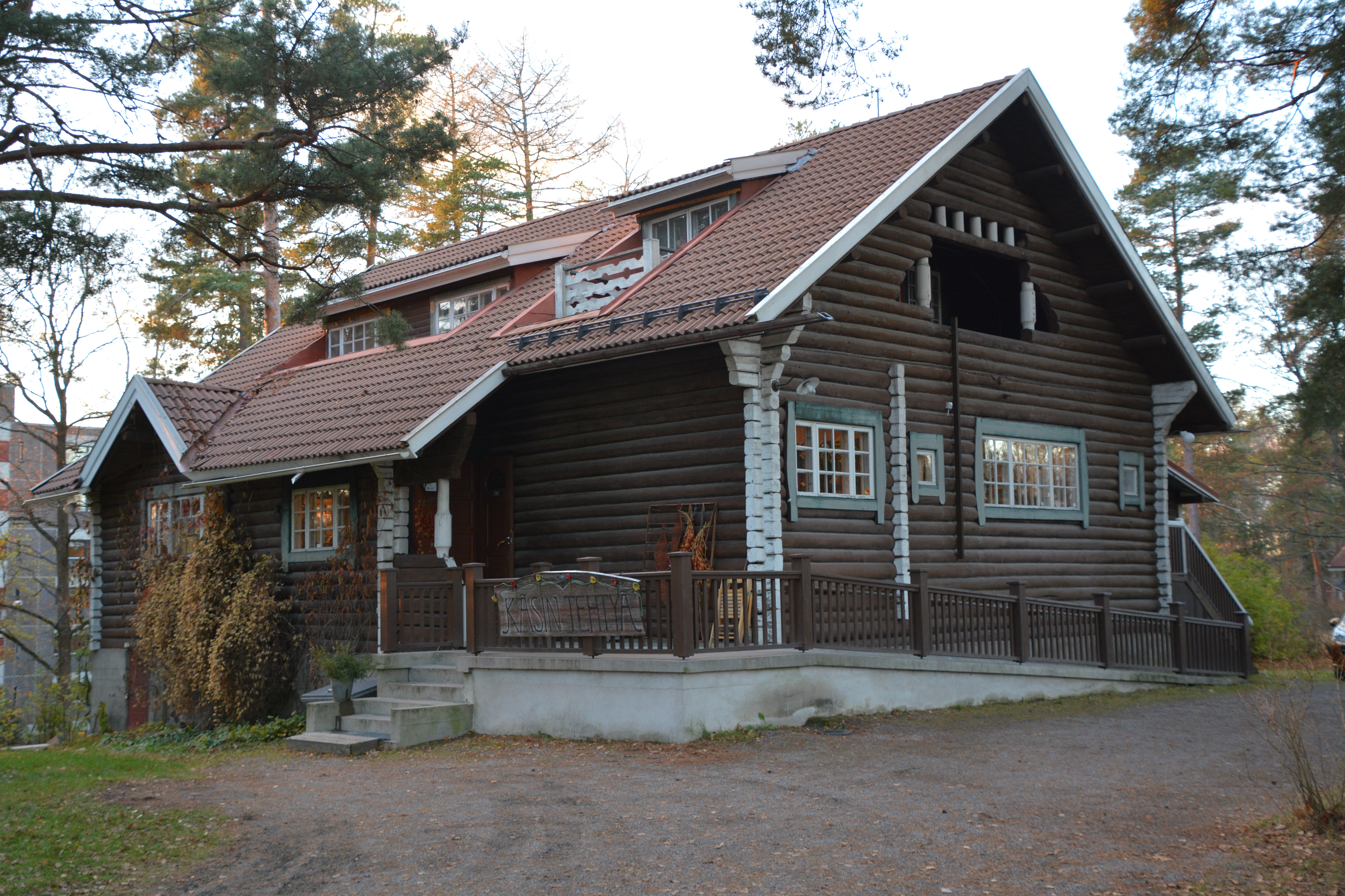 Villa Cooper, Järvenpää, Finland. Architecht: Lars Sonck